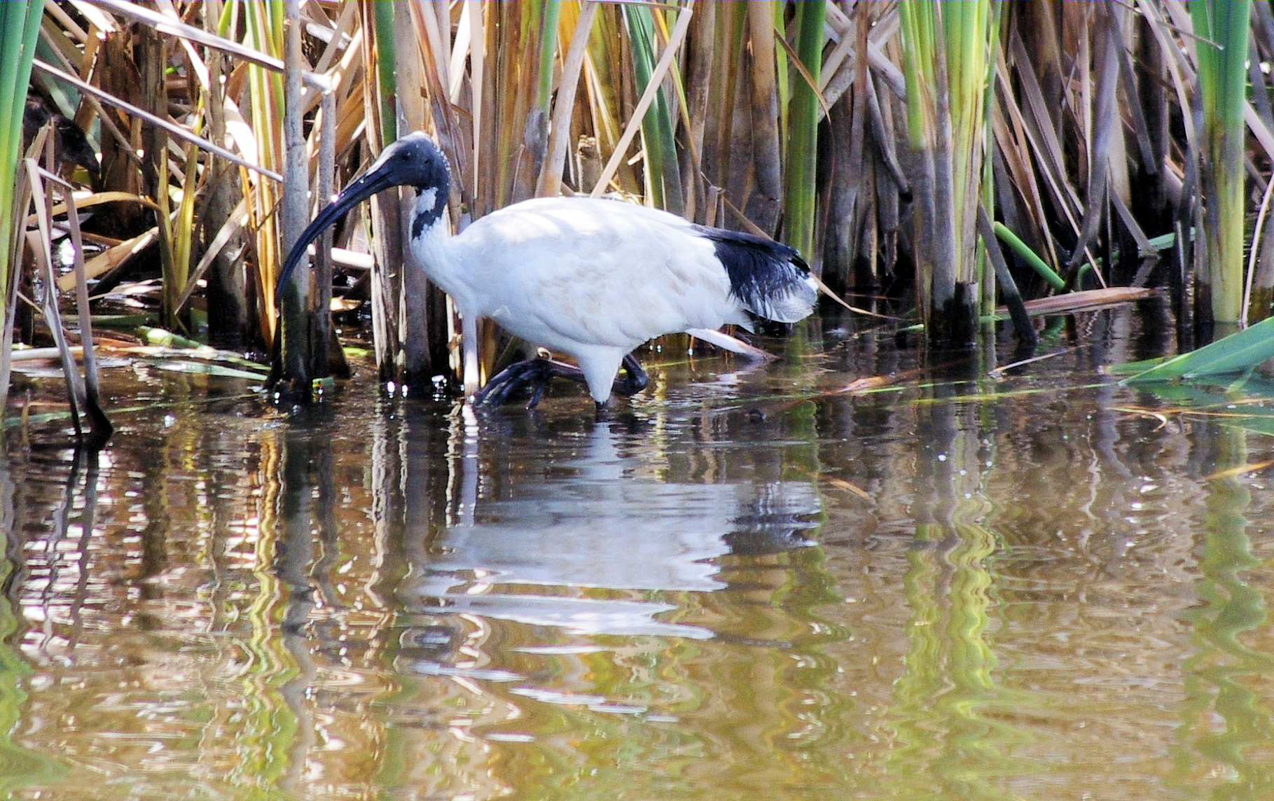 An Australian White Ibis in a swamp in Bunbury, Western Australia, Australia.